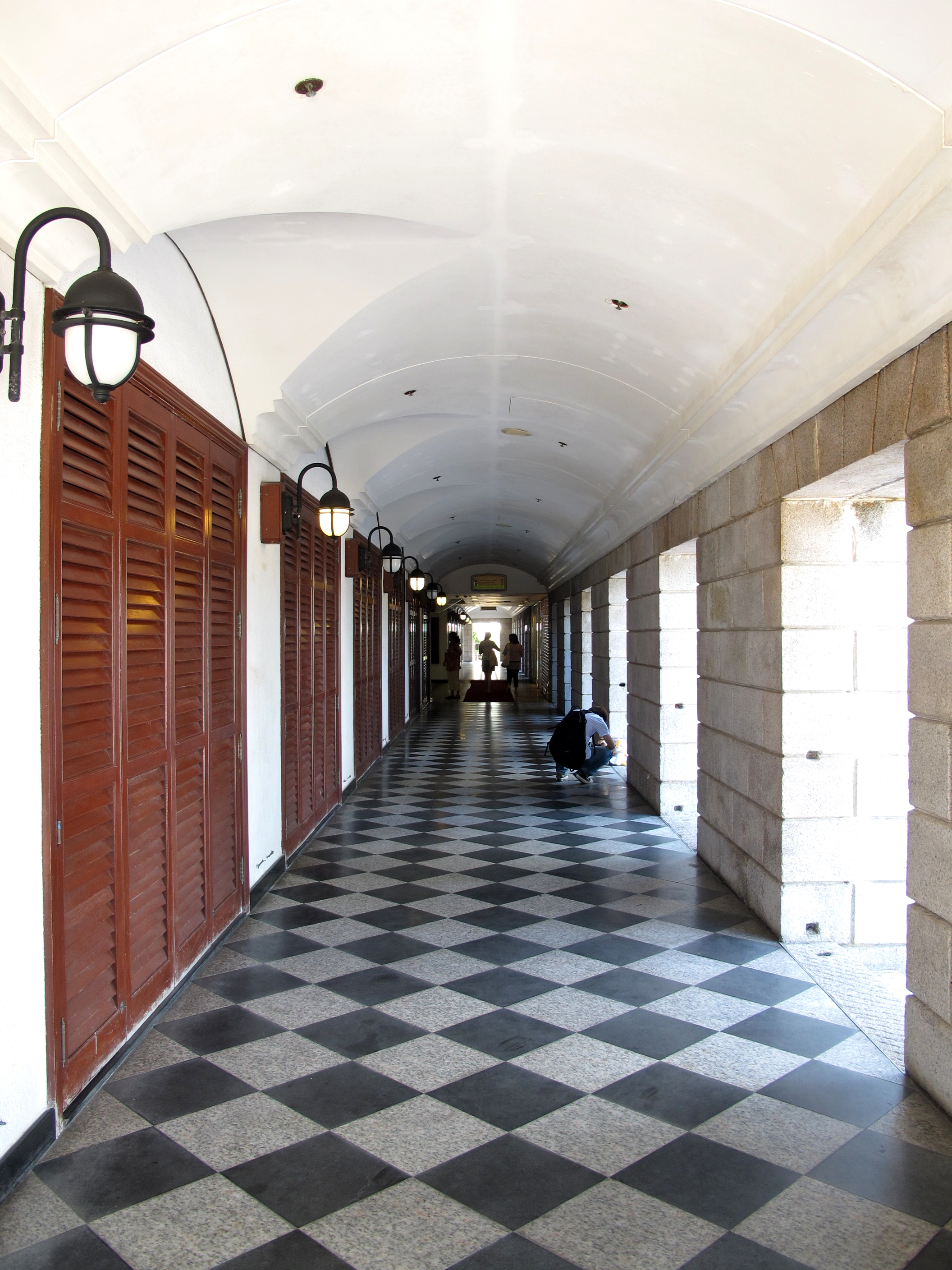 Murray Building Ground Floor Corridor 美利樓地下通道